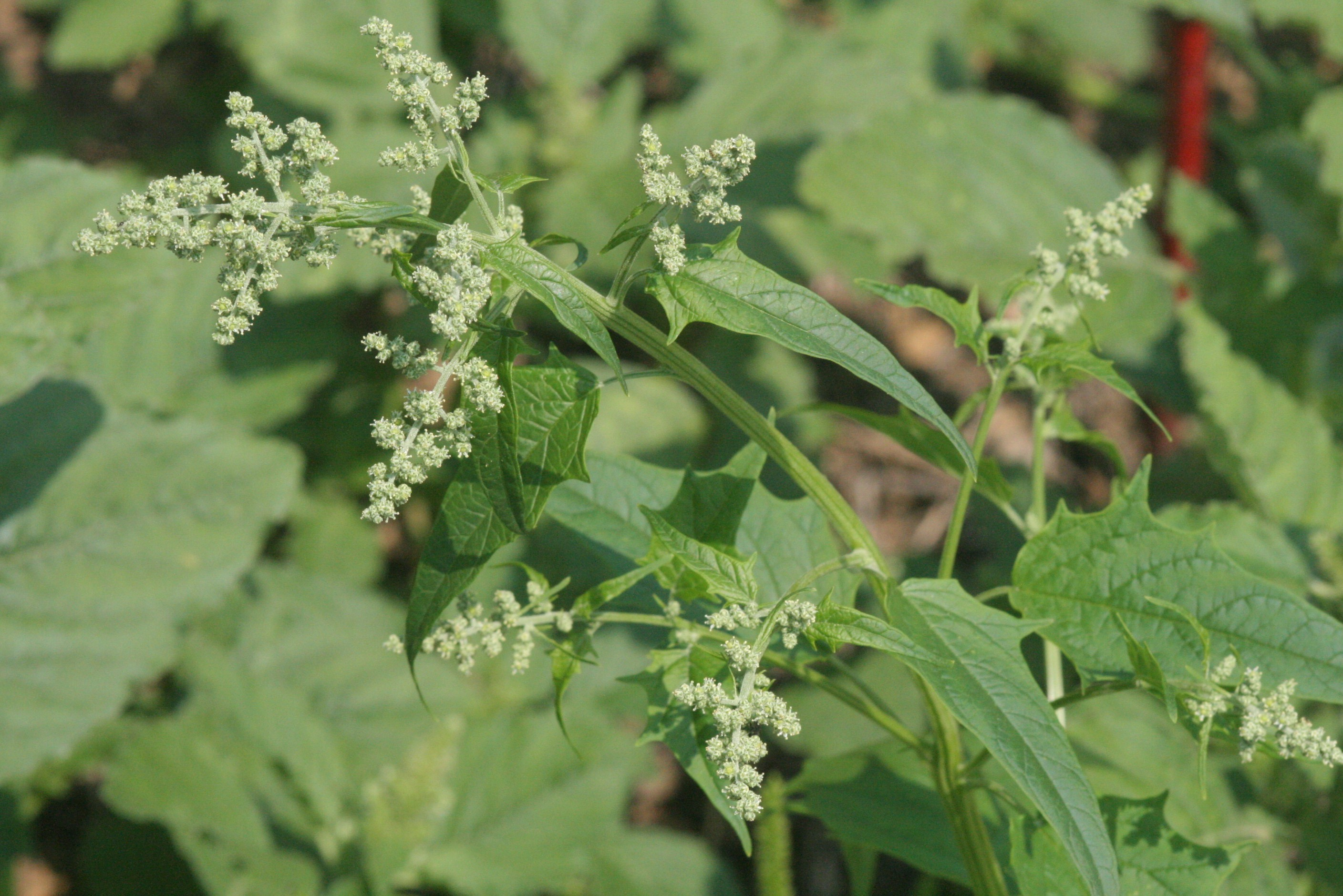 Chenopodium hybridum